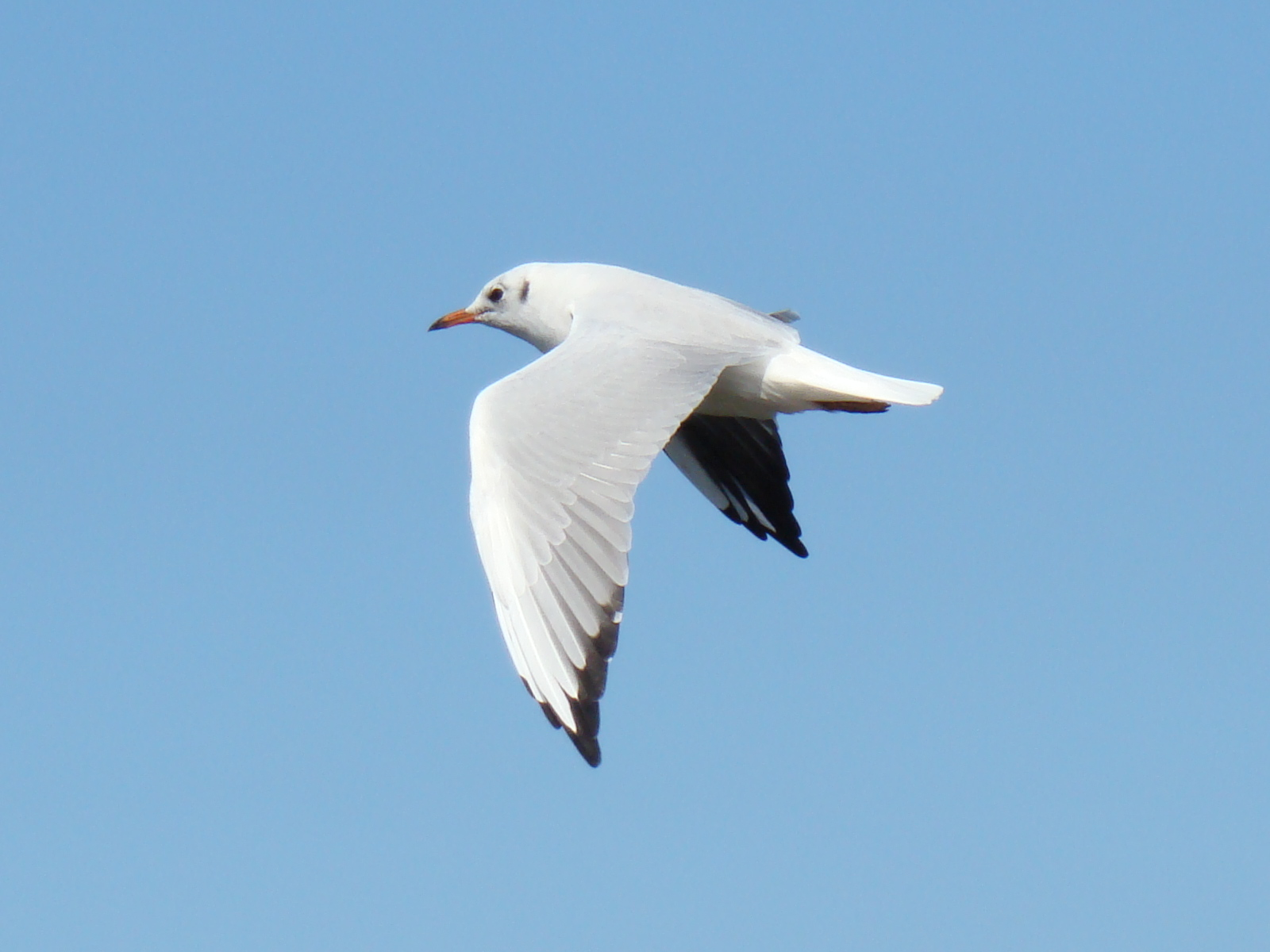 Photo of the Black-headed Gull (Larus ridibundus) in Klaipeda, Smiltine's ferry, Lithuania.